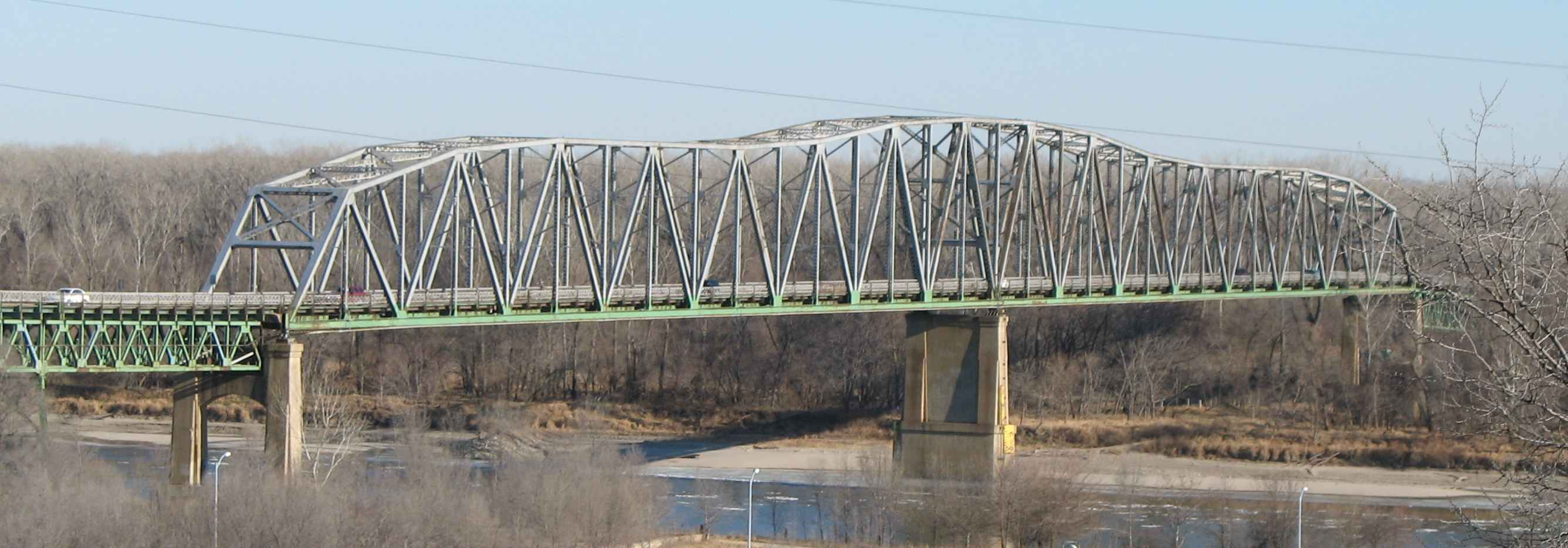 South Omaha Veterans Memorial Bridge from the south on the Nebraska side. Photo by poster in December 2006.